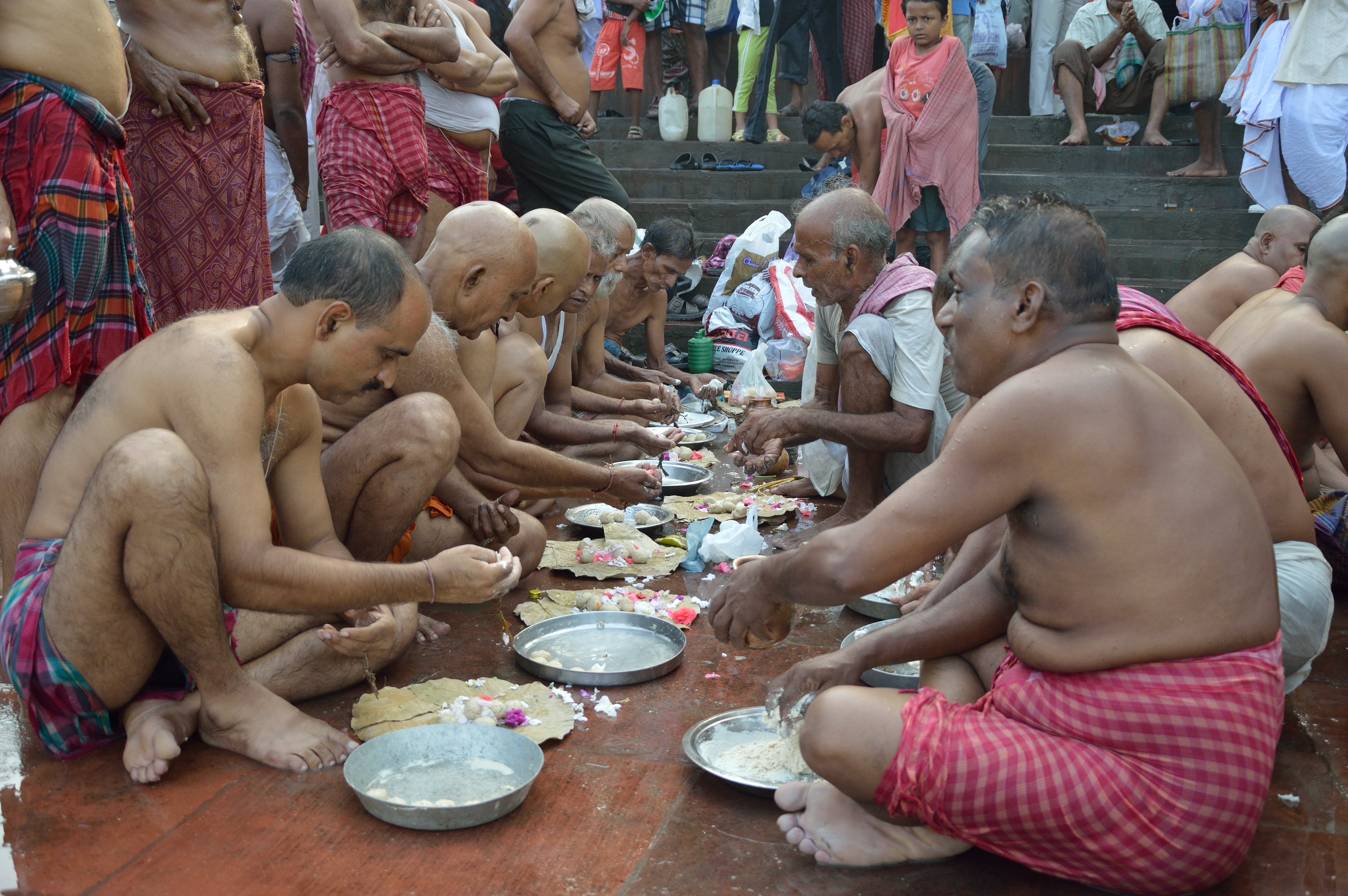 Pinda Daan or food offering to the manes - It is a Hindu ritual. It is well practised on the 'Mahalaya' day when 'Pitri Paksha' ends and 'Devi Paksha' starts, even on other dasy also.